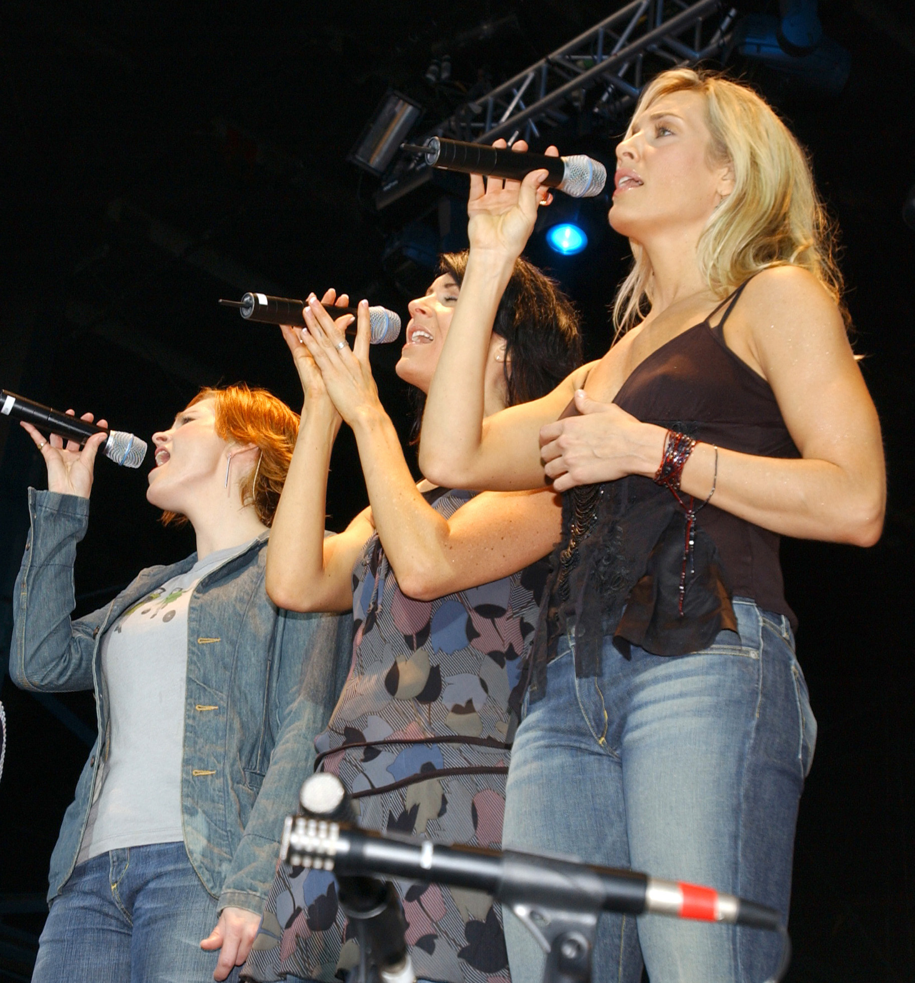 040821-F-6470S-001 (Aug. 21, 2004)Country Music trio SheDAISY sings the United States (US) National Anthem, accompanied by a US Air Force (USAF) Color Guard, during the Y'allaplooza concert at the Verizon Wireless Amphitheater, Bonner Springs, Kansas (KS). More than 60 USAF Airmen, US Army (USA) Soldiers and US Marine Corps (USMC) Marines from Whiteman Air Force Base (AFB), Fort Leavenworth, KS, and the Marine Corps Recruiting Command (MCRC), Kansas City, Missouri (MO), were honored for service to their country during the concert.U.S. Air Force official photo by Staff Sgt. Tia Schroeder (RELEASED) (Released to Public)